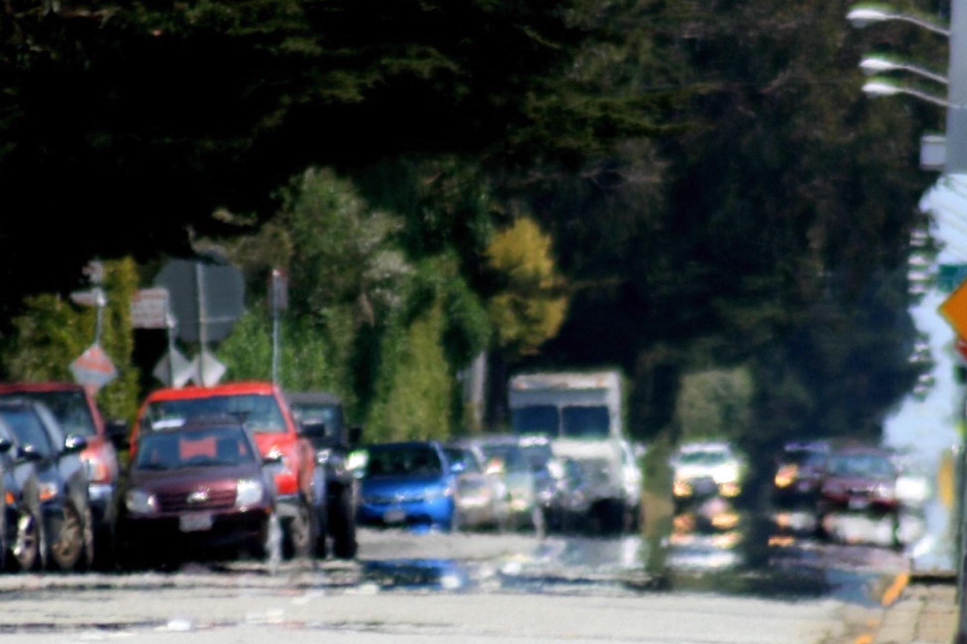 The most common Mirage is so called Hot Road Mirage, which is an inferior mirage. Please notice it is not a blurry, out of focus picture. It Is a mirage.